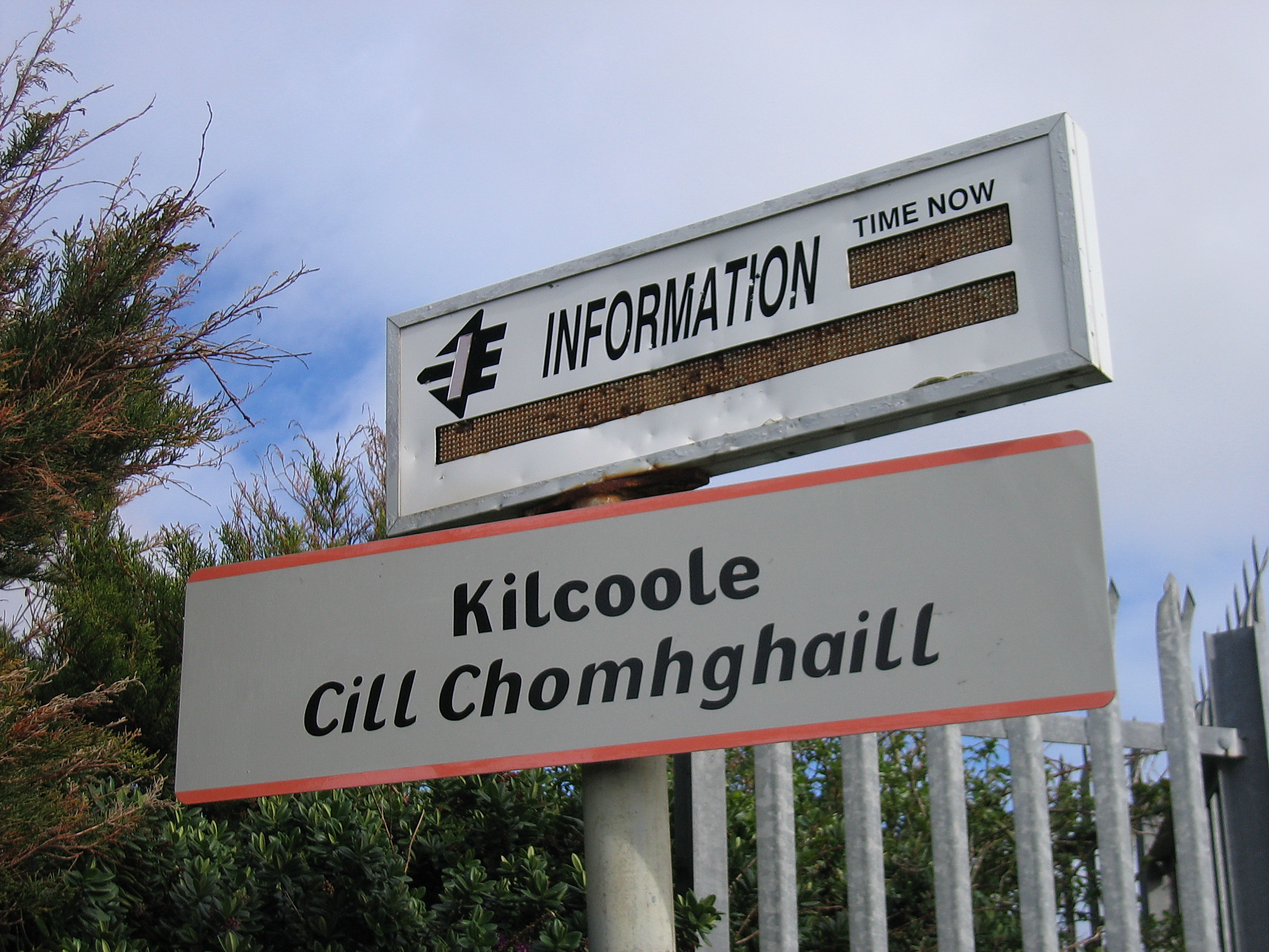 The entrance to Kilcoole Railway "Station" The electric sign above is defunct, and is left there by Irish Rail as a decorative feature. (Sarah777 16:47, 20 March 2007 (UTC))